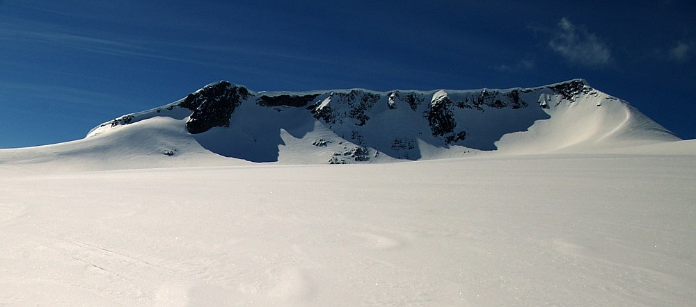 Fannaråki, highest point to the right on the rigdge. Seen from Fannaråkbreen (north).